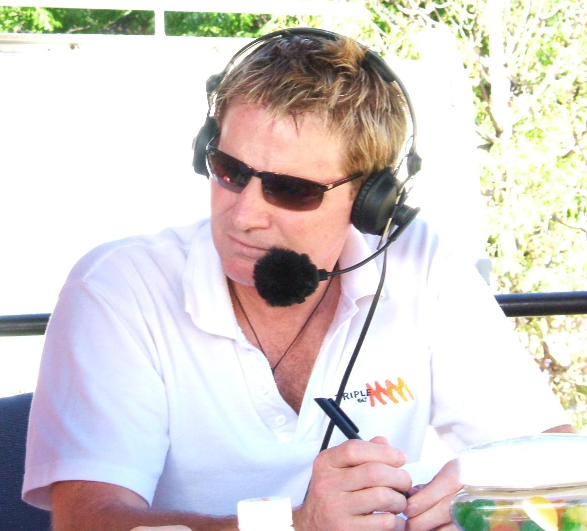 Named radio host at the en:2009 Tour Down Under team presentation